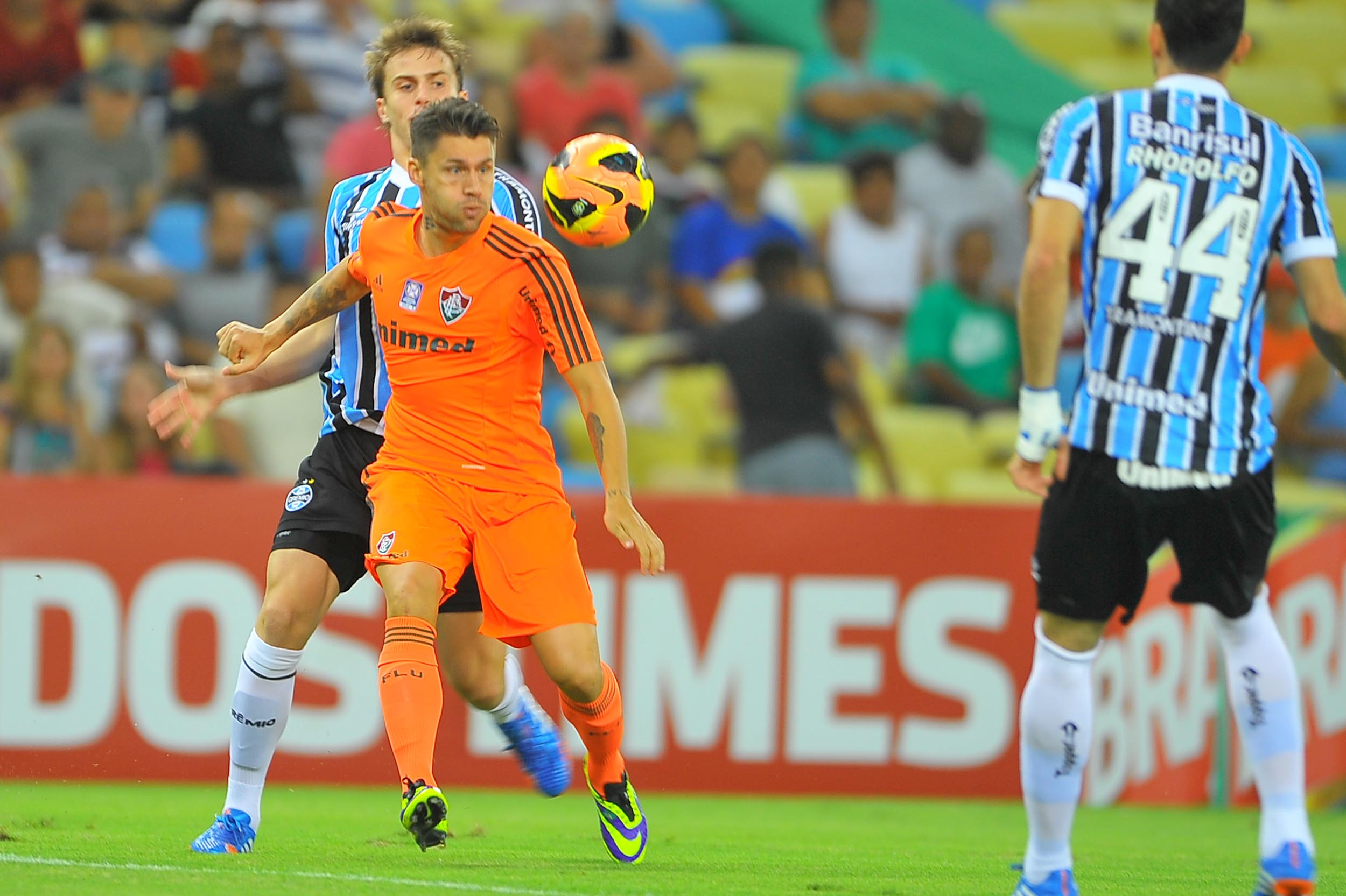 Fluminense X Grêmio FBPA. 28ª rodada do Campeonato Brasileiro de 2013.